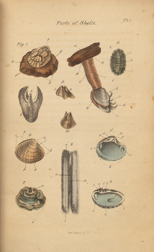 Interior page of the second edition of The Conchologist’s First Book, purported to be written by Edgar A. Poe, though the majority of the work was taken from a book by Prof. Thomas Wyatt. The second edition included several color plate illustrations, including this one. Published in Philadelphia by Haswell, Barrington, and Haswell, 1840. See also a cover of the first edition here.